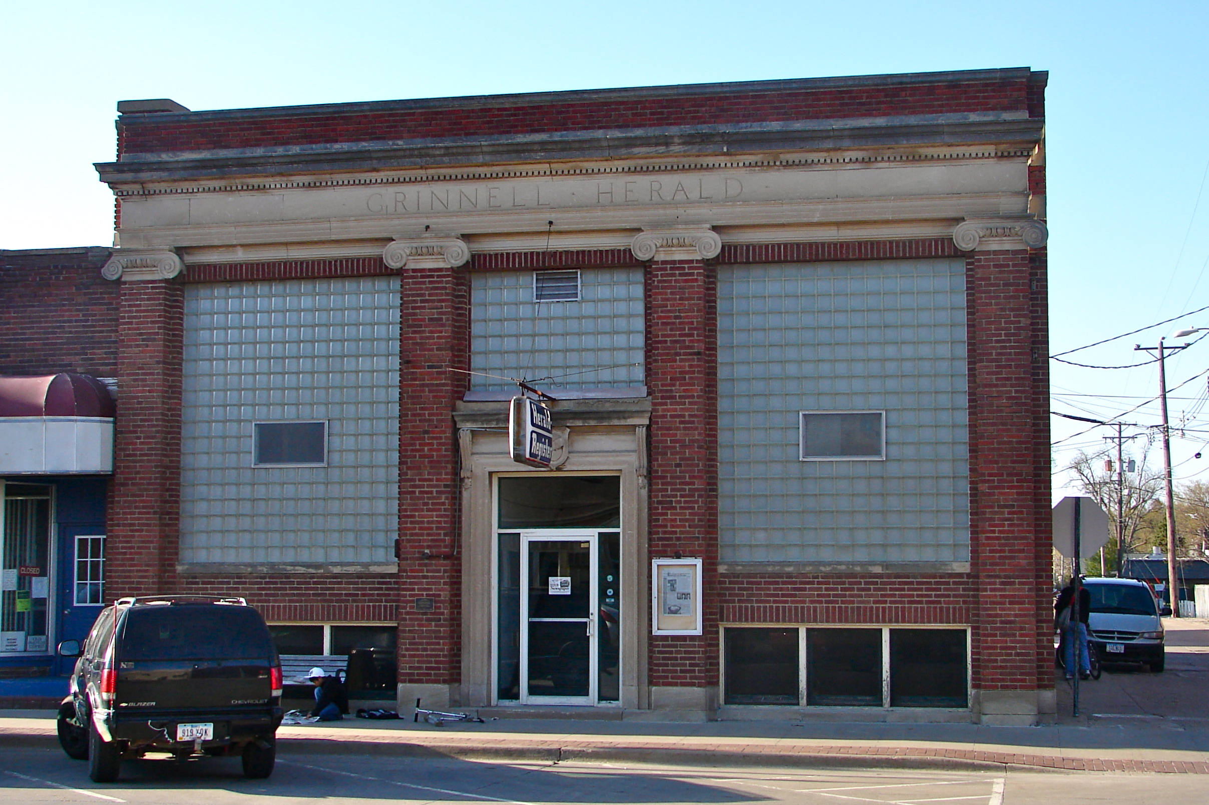 Grinnell Herald Building on the NRHP since January 17, 1991. At 813 5th Ave., Grinnell, Iowa